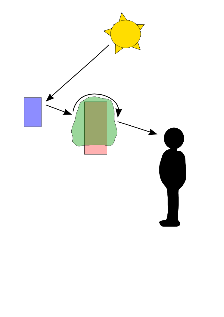 Illustration of invisibility